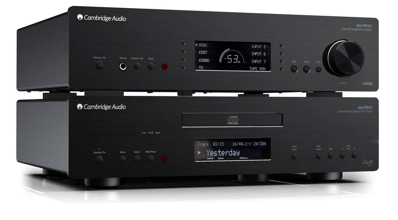 Cambridge Audio 851A integrated amplifier (top) and 851C CD (bottom)